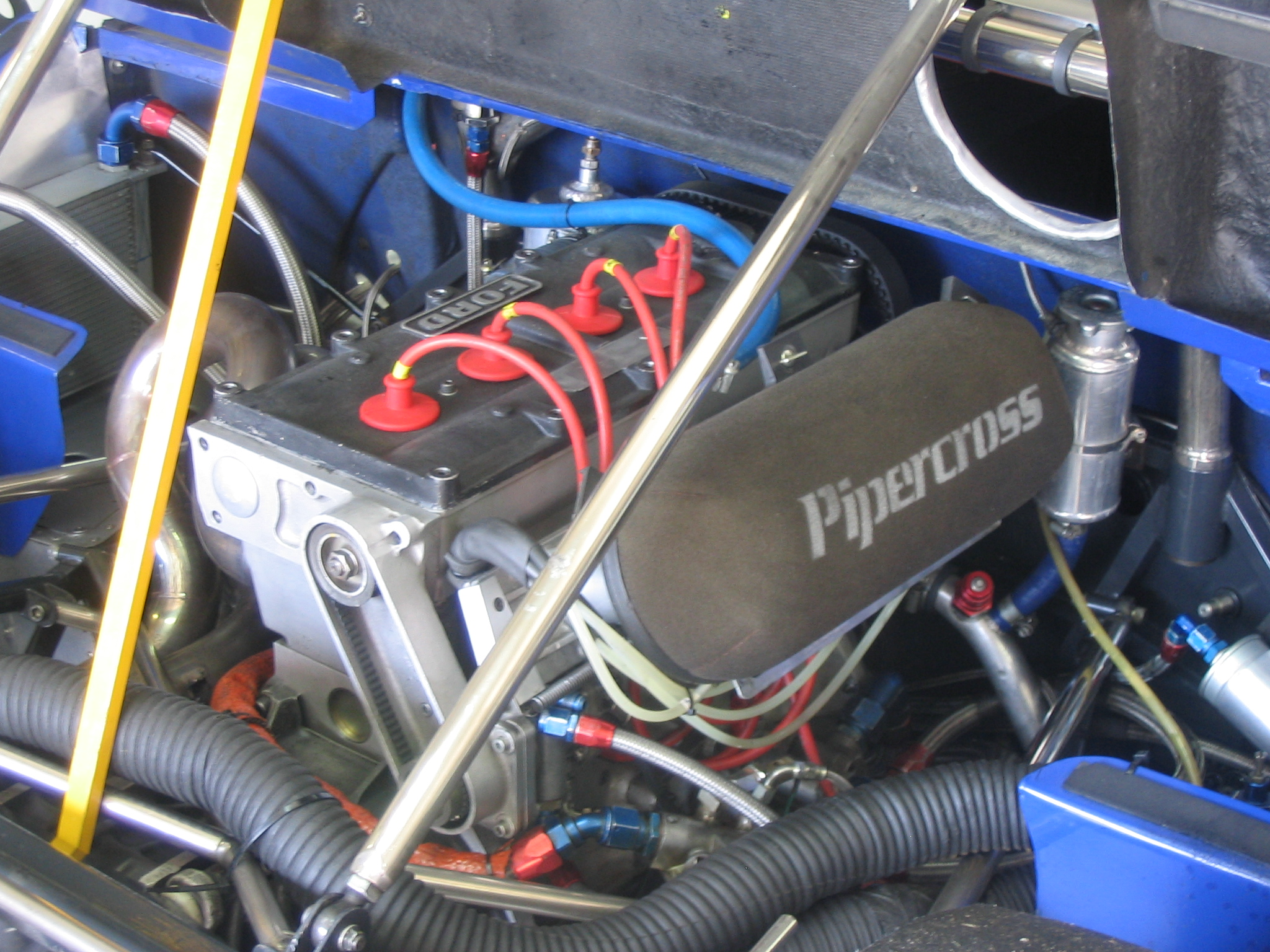 2.0l Ford engine from a Chevron B19 driven by Vincent Rivet at Jim Clark Revival 2008